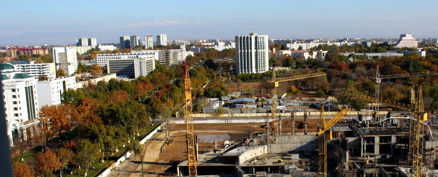 Skyline of Tashkent